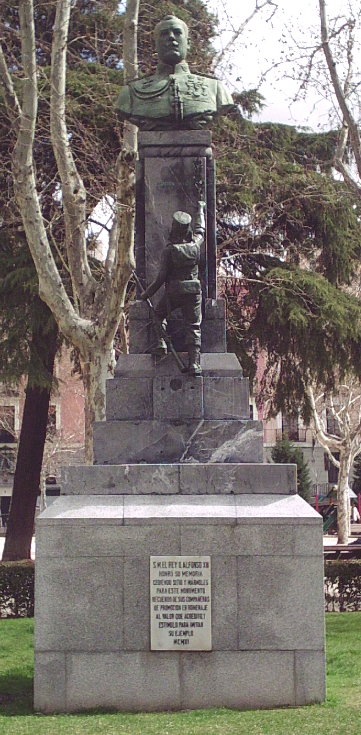 Monument to Captain Ángel Melgar (1876–1909). Inaugurated in Madrid (Spain) in 1911. Made of bronze and marble by sculptor Julio González Pola (1860–1929). Measurements: 3.60 x 1.60 x 1.60 metres.